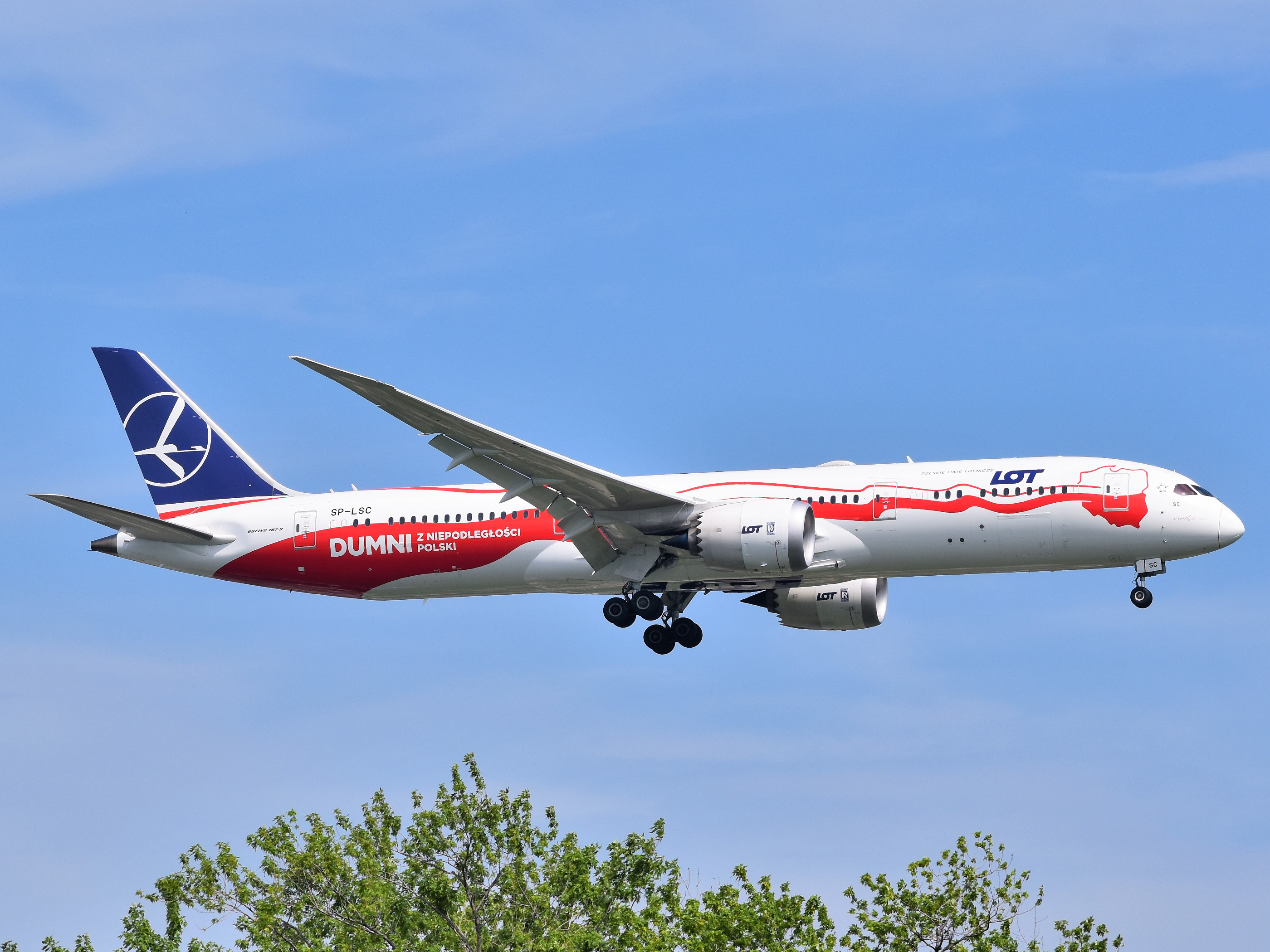 A LOT Polish Airlines Boeing 787-9 Dreamliner, painted in a Proud of Polish Independence livery, is on final approach to John F. Kennedy International Airport Runway 22L.